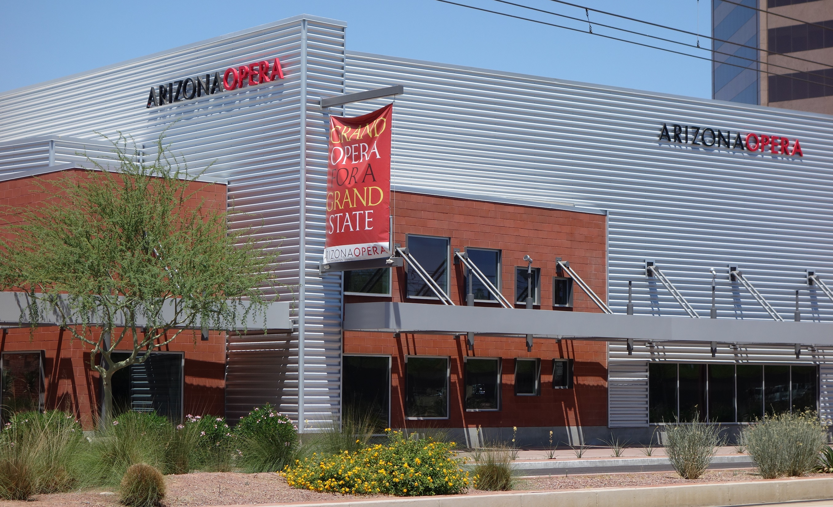 The Arizona Opera's storage, administrative, and small-scale performance building on Central Avenue.